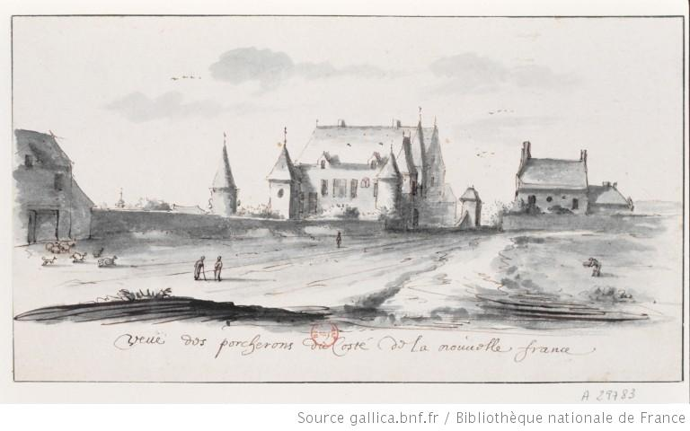 Porcherons Castle which was rue Saint-Lazare in Paris 9th arr. On the legend, we read "vu du côté de la Nouvelle France" (=seen from the side of the New France). The Nouvelle France was a quarter of Paris on the east of the Porcherons.